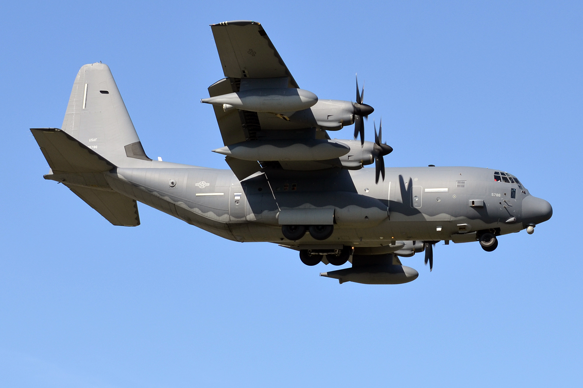 U.S. Air Force, 13-5786, Lockheed Martin MC-130J Hercules